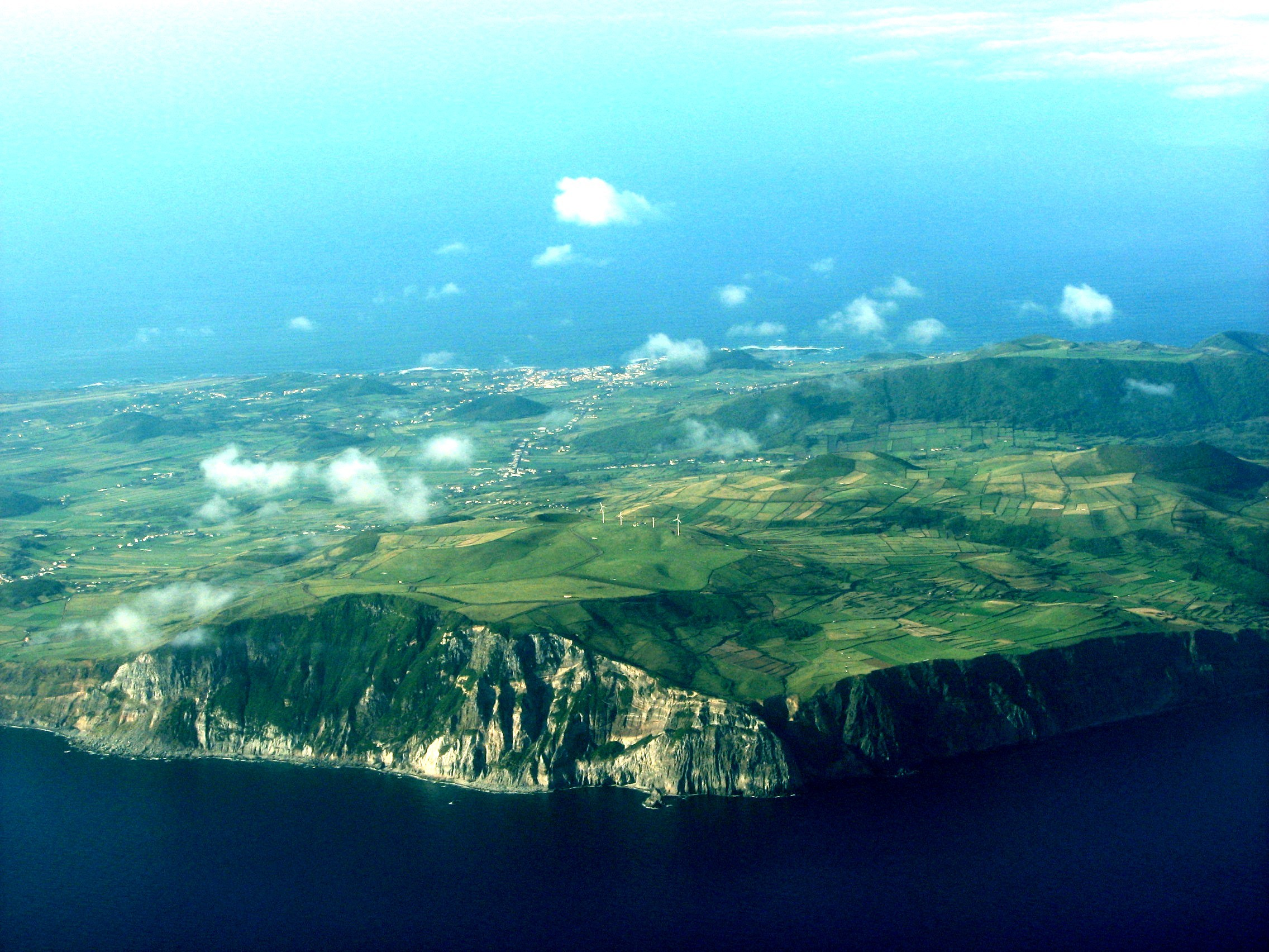 The Serra Branca cliffs, Graciosa, Azores. The town at the other coast is Santa Cruz da Graciosa.